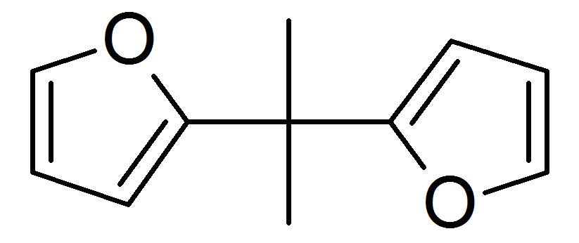 Structure of 2,2-di-2-furylpropane